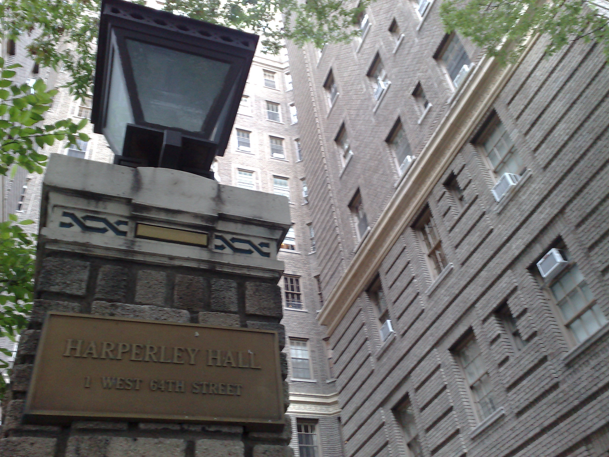 This photo is of Wikis Take Manhattan goal code A2, Harperly Hall.